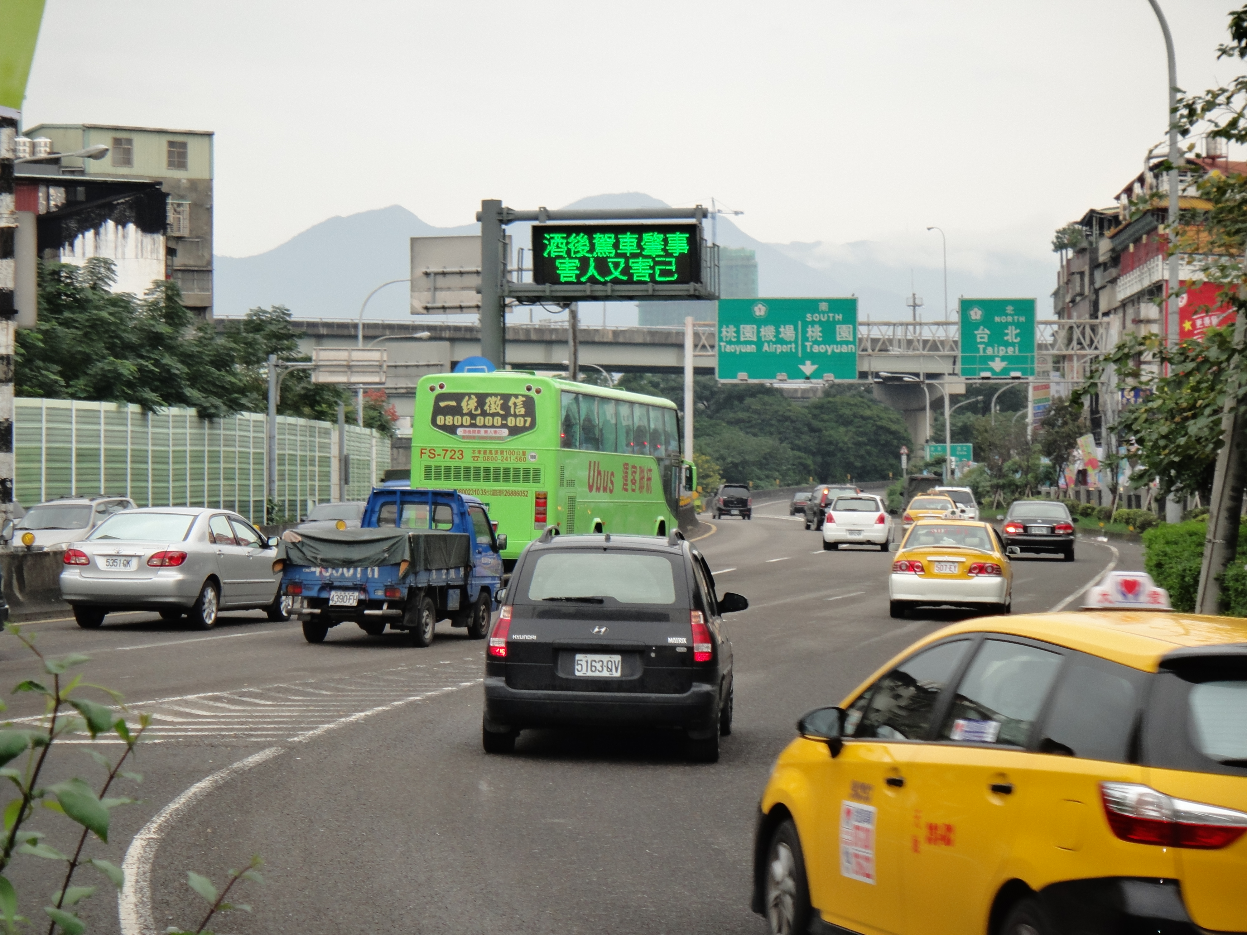 Zhongshan Freeway Sanchong Interchange, one of the interchanges in Zhongshan Freeway Western New Taipei City Section, in Sanchong District